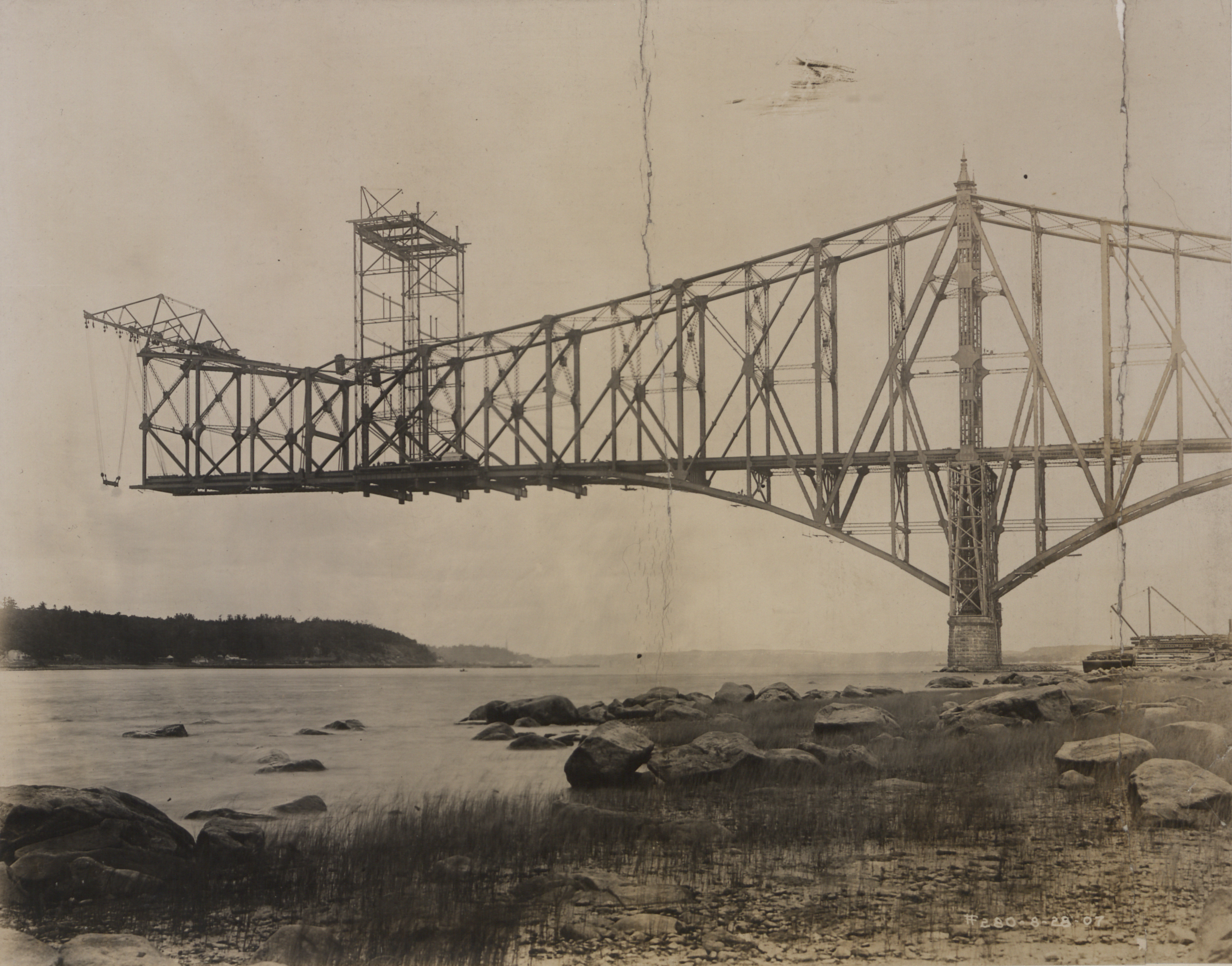 Original caption: "Quebec bridge."